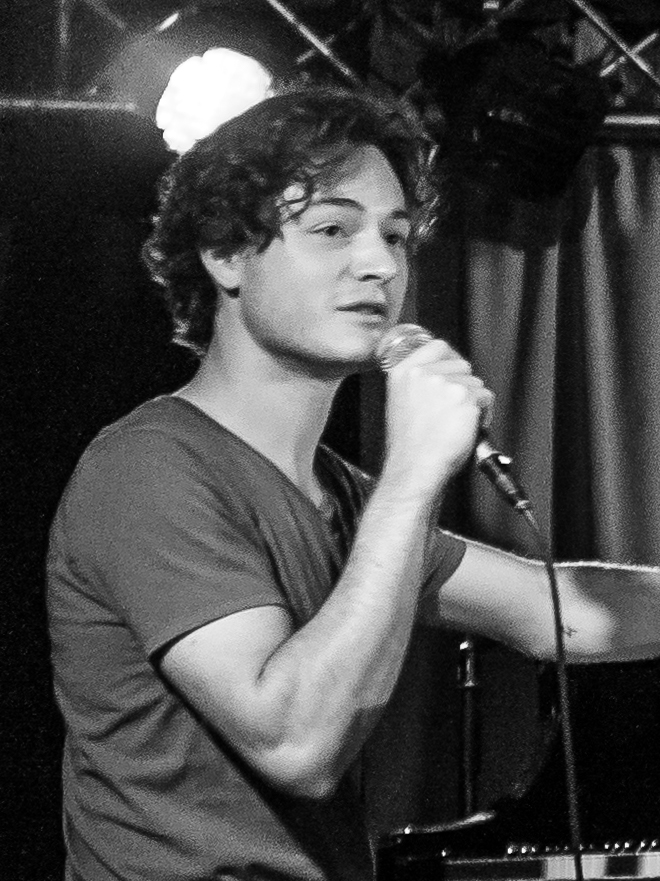 Thomas Enhco auf dem North Sea Jazz Festival 2015